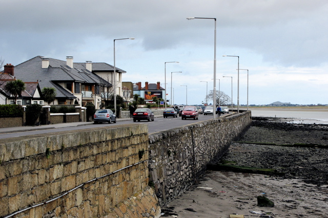 Clontarf Road, Dollymount, Dublin Bull Island can be seen in the far right